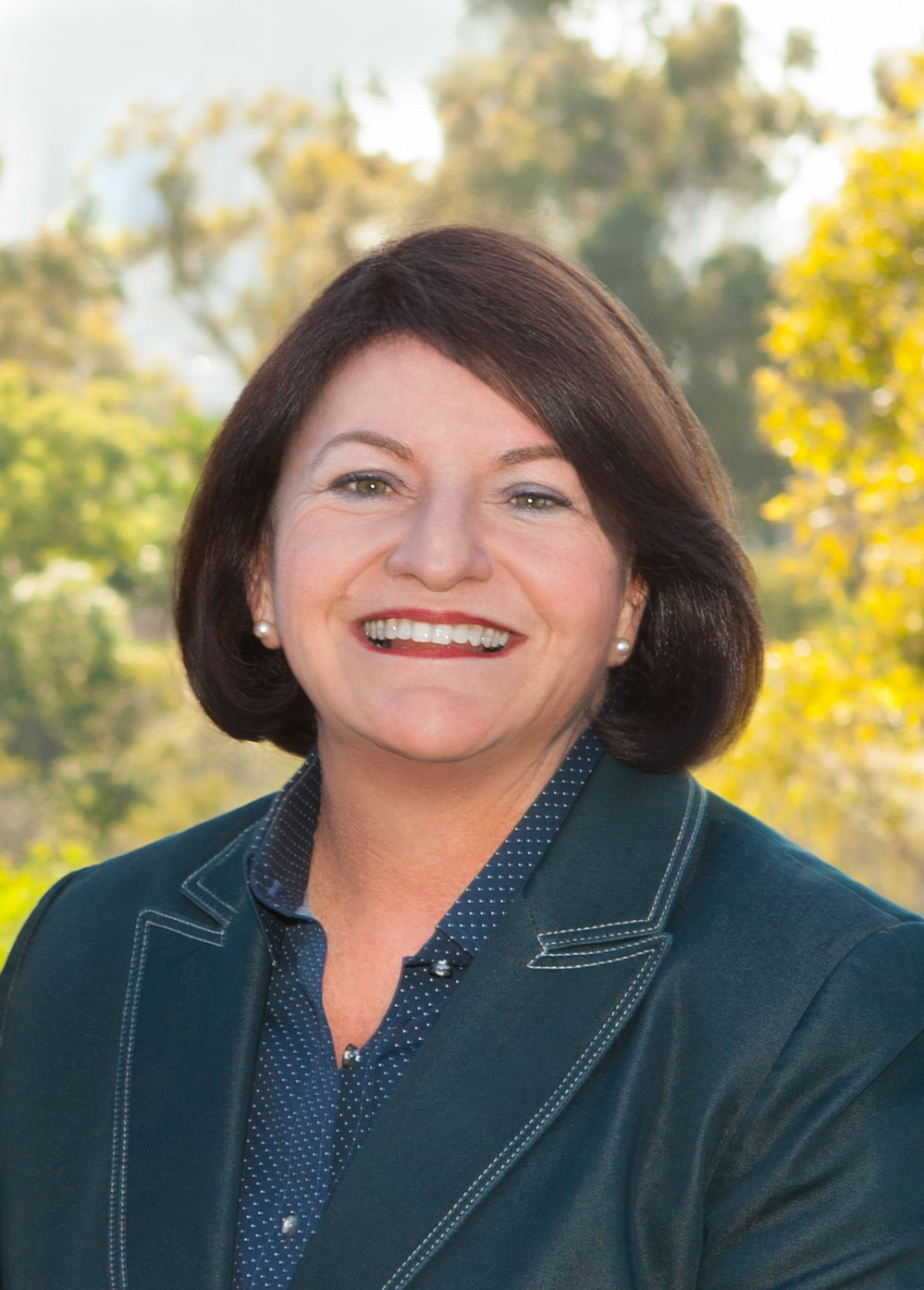 Headshot Photo of Politician Toni Atkins